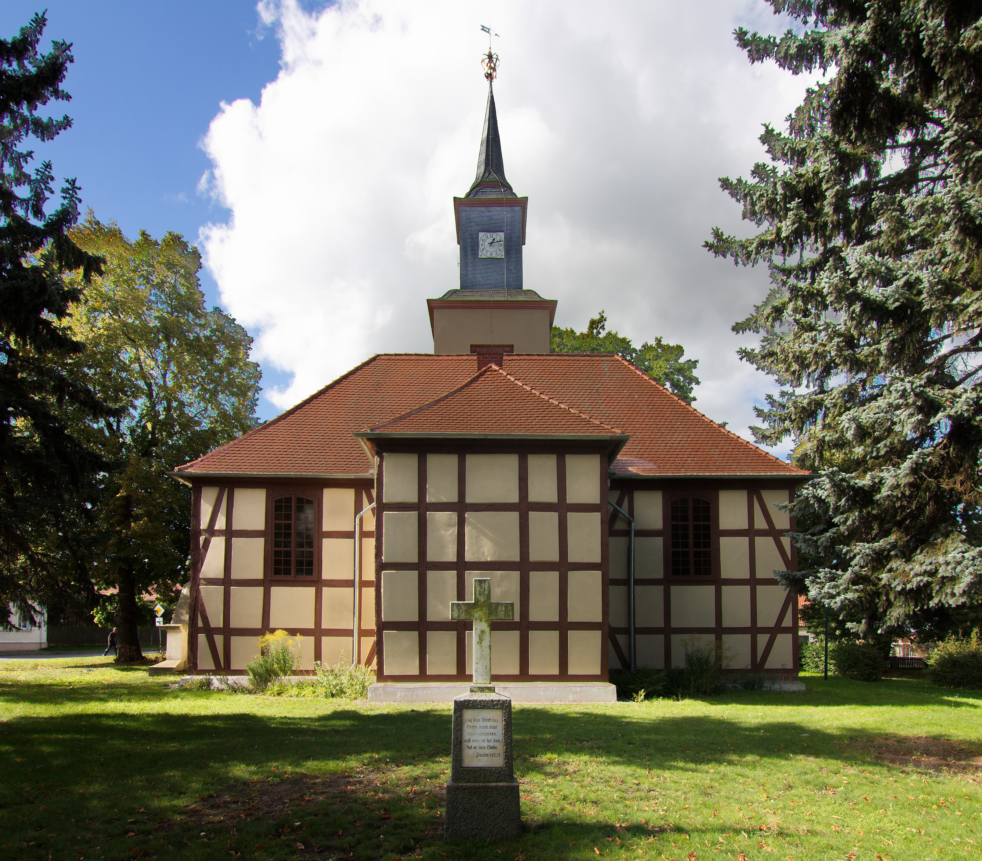 Kirche zu Ferchland (Elbe-Parey), Sachsen-Anhalt, Deutschland